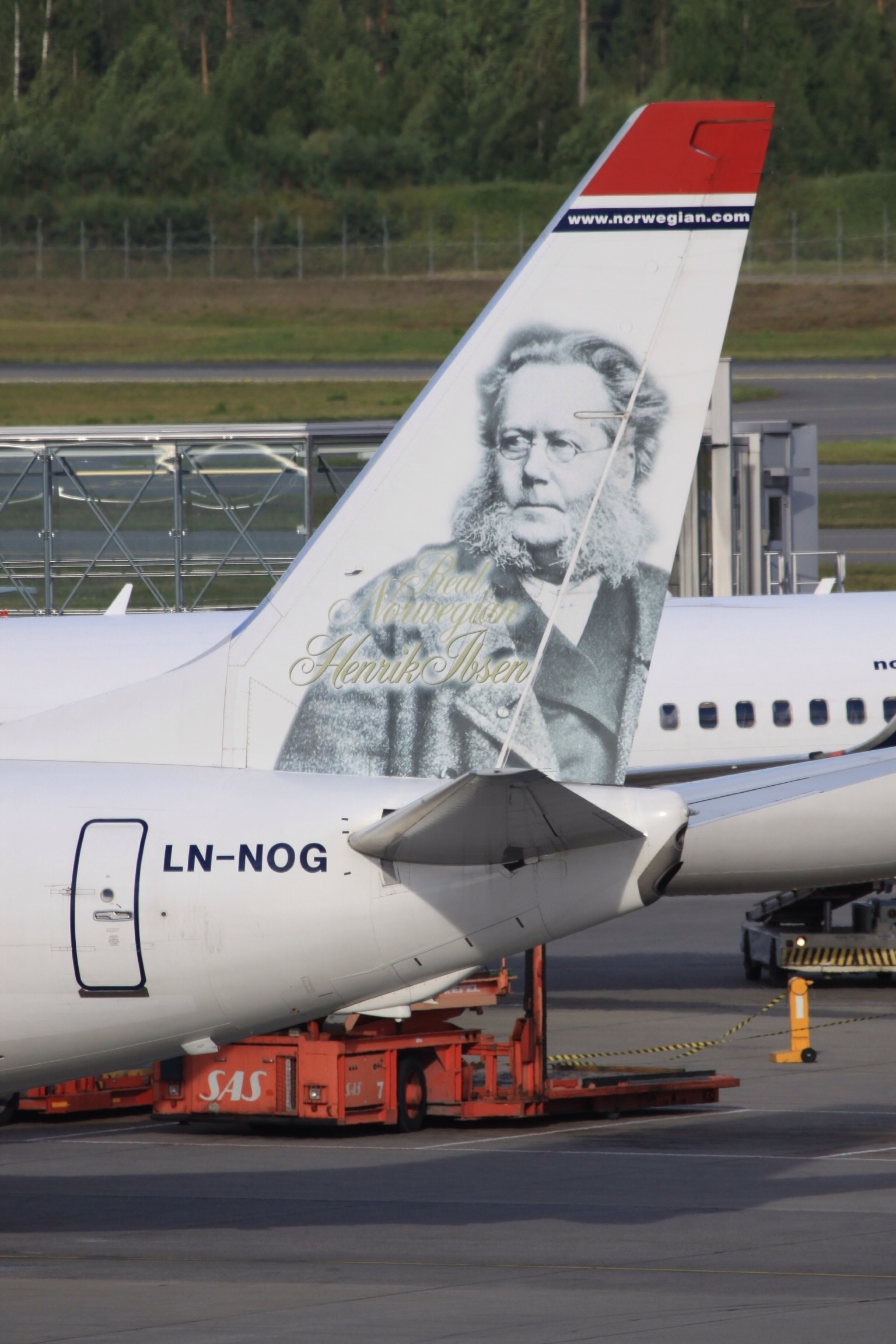 At Oslo Gardermoen